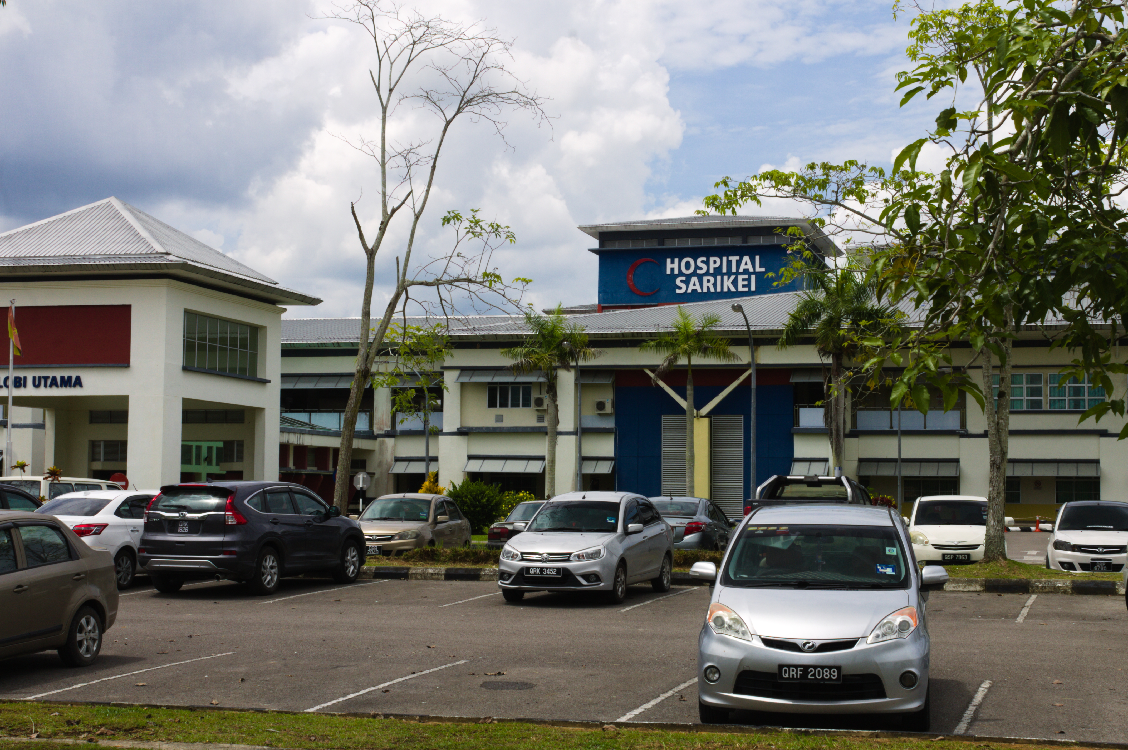 Sarikei Hospital main building